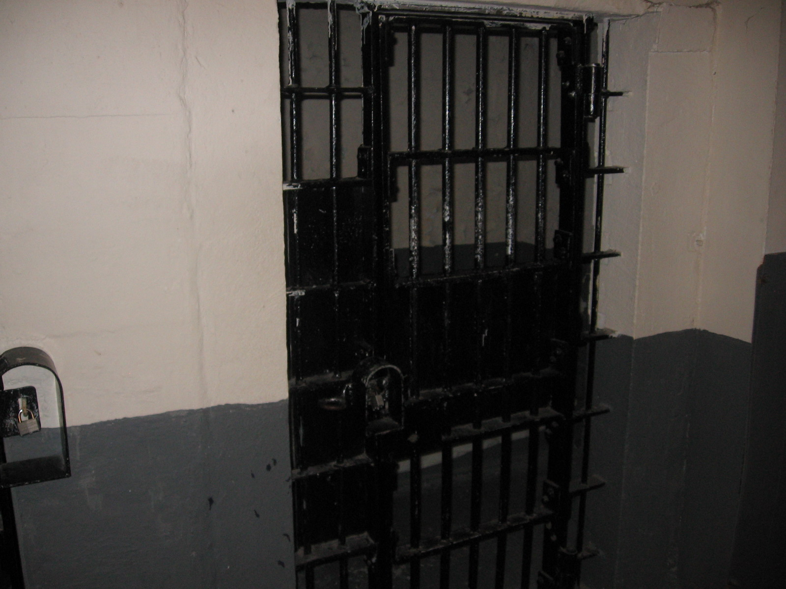 A view of one of the cells in Siberia East at the Old Montana Prison